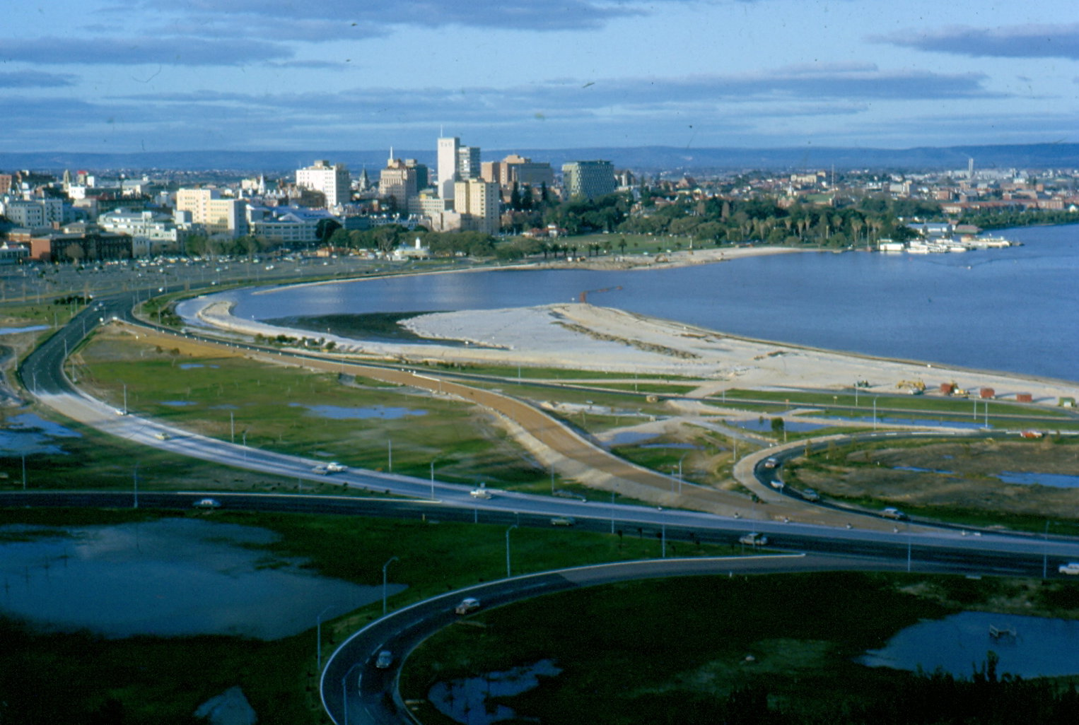 Perth from Kings Park in 1964